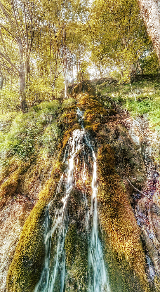 Photo of Skakavac Waterfall near Mrkonjić Grad (Balkana)